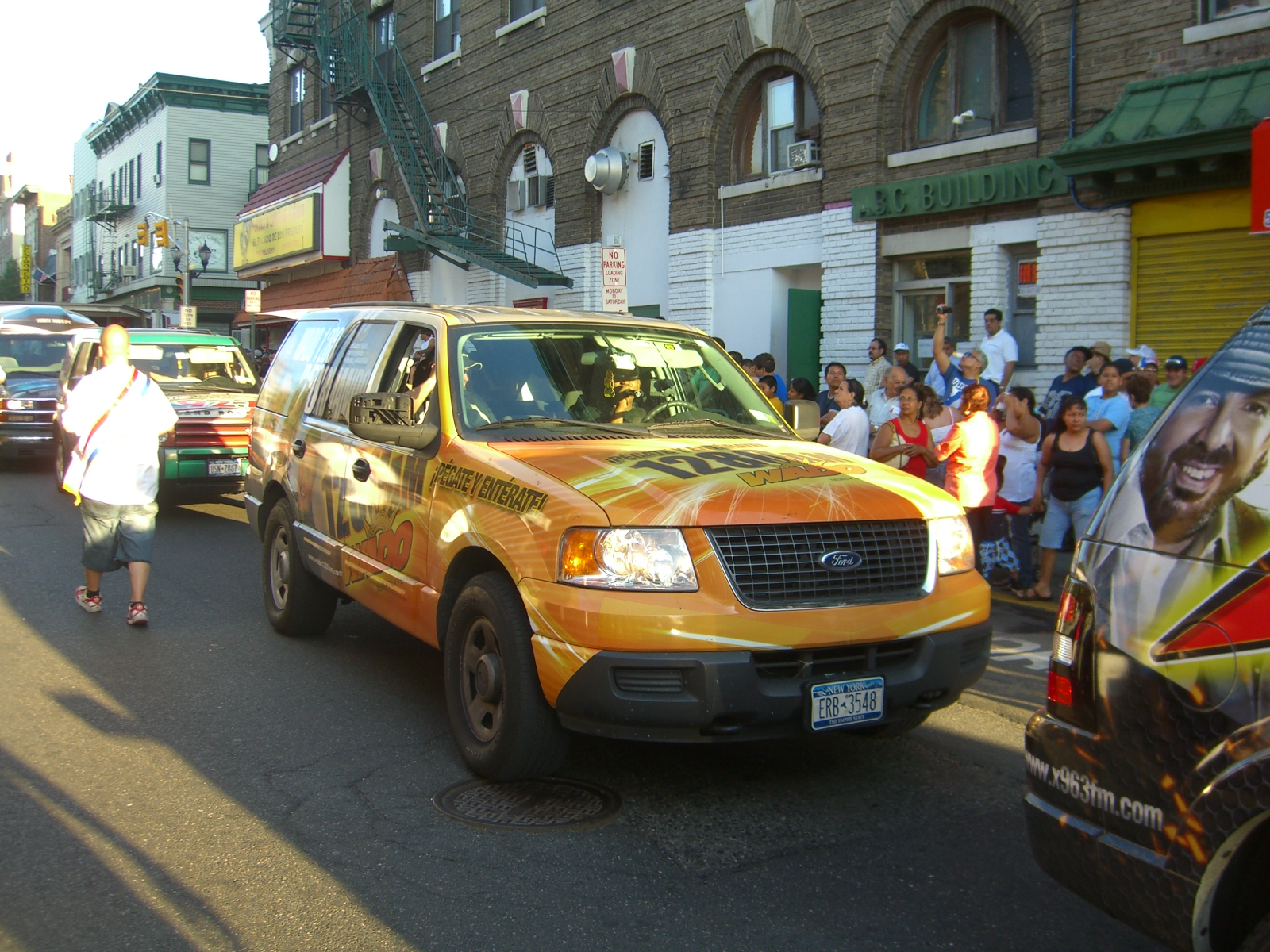 A 1280 AM WADO car in the 11th annual North Hudson Cuban Day Parade on 43rd Street and Bergenline Avenue in Union City, New Jersey, June 6, 2010. Photo by Luigi Novi. This photo may be used and modified, for any purpose, only if the photographer is visibly credited in each instance in which it is used. (See licensing information below.) For more information on my photos, you can contact me here.